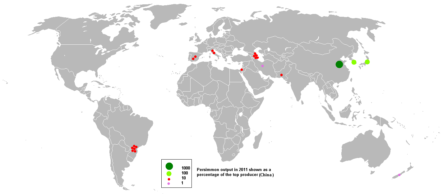 This bubble map shows the global distribution of persimmon output in 2006 as a percentage of the top producer (China - 1,987,000 tonnes). This map is consistent with incomplete set of data too as long as the top producer is known. It resolves the accessibility issues faced by colour-coded maps that may not be properly rendered in old computer screens. Based on :Image:BlankMap-World.png